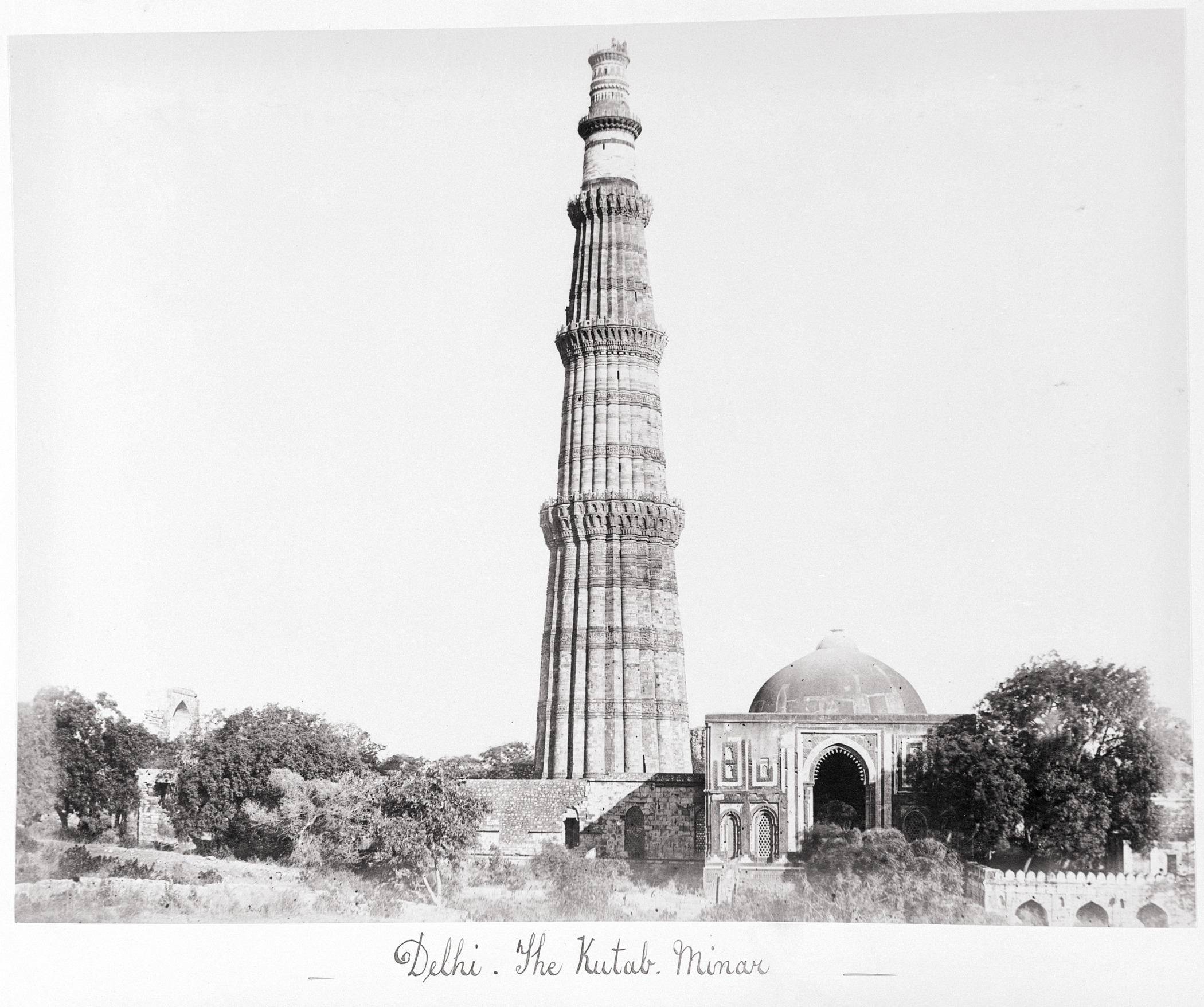 England, late 1860s Photographs Albumen print Gift of Mr. and Mrs. Martin I. Harman in honor of Sande Harman (M.90.24.20) Photography